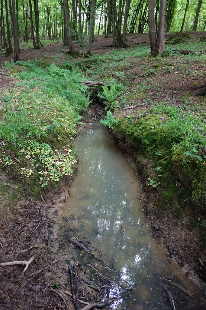 Northlands Gill is a stream stretching the width of Graylands. Here it is seen in the north west of the hamlet.